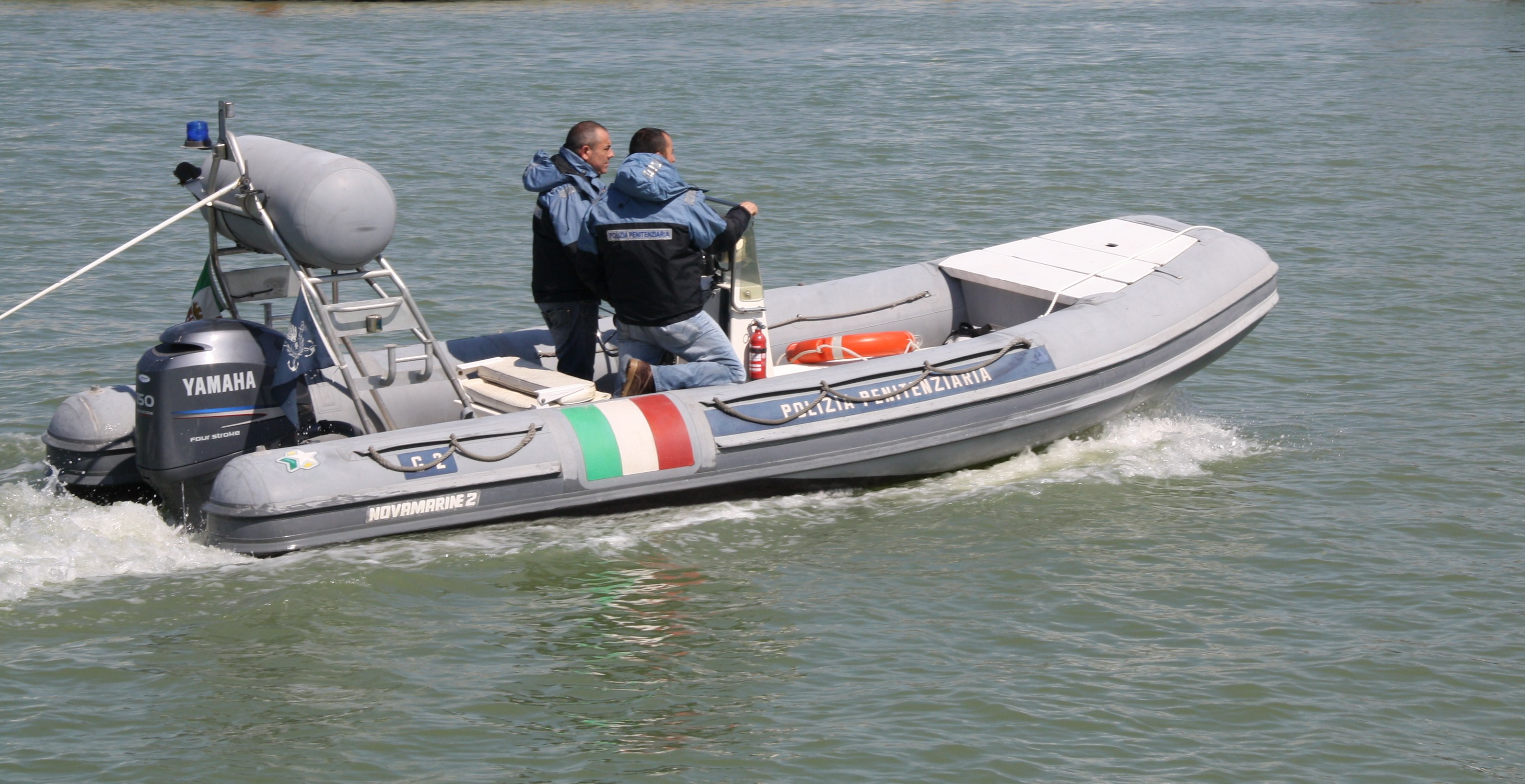 Italy, Port of Livorno. The Polizia Penitenziaria patrol boat sailing in the harbour.